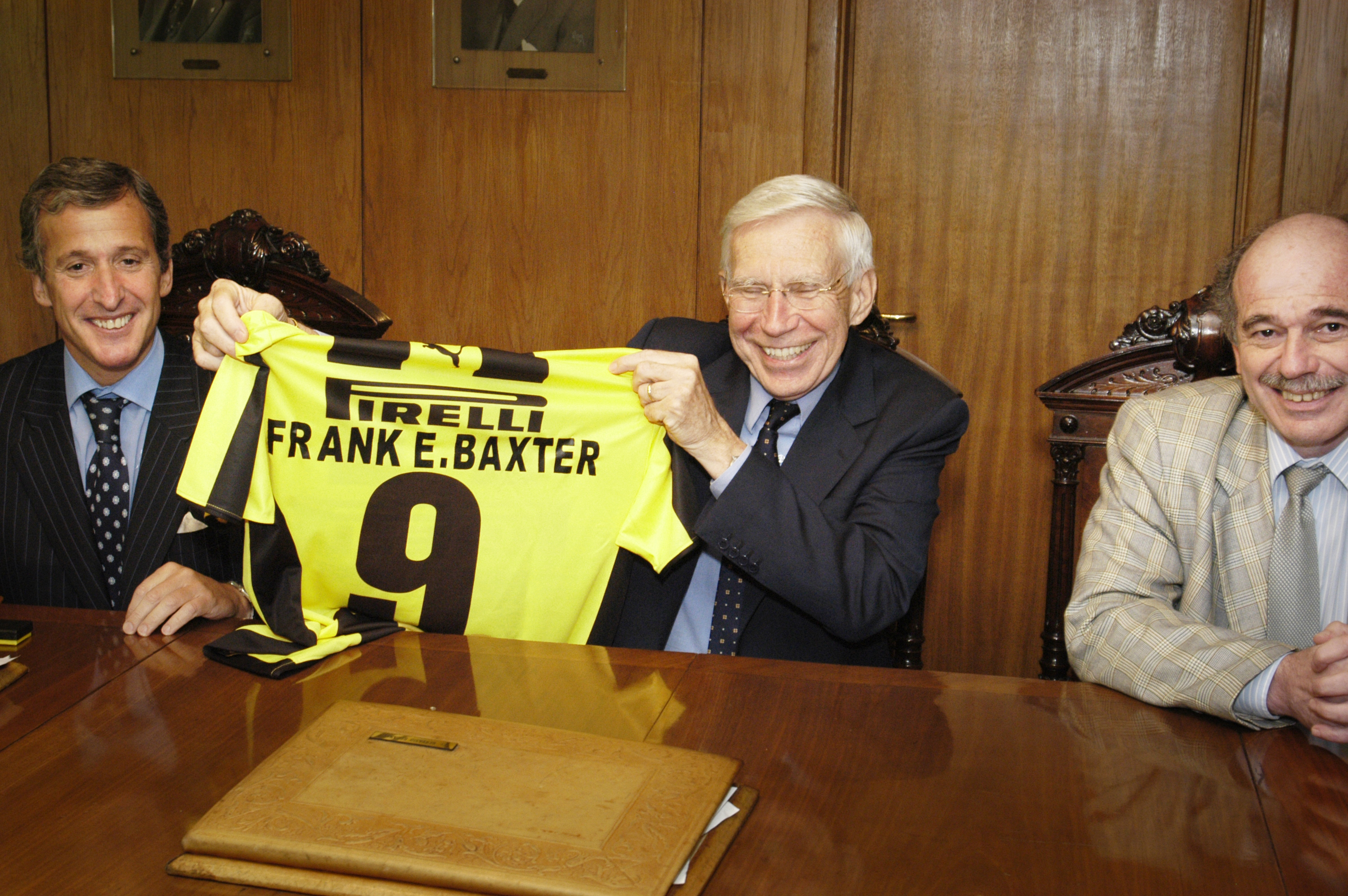 C.A. Peñarol chairman, Juan Pedro Damiani.